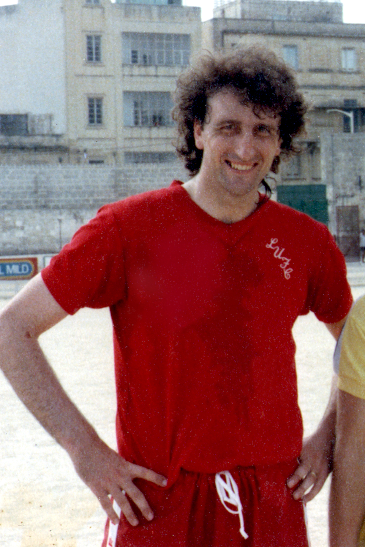 Paul Hart, Leeds United AFC & Scotland